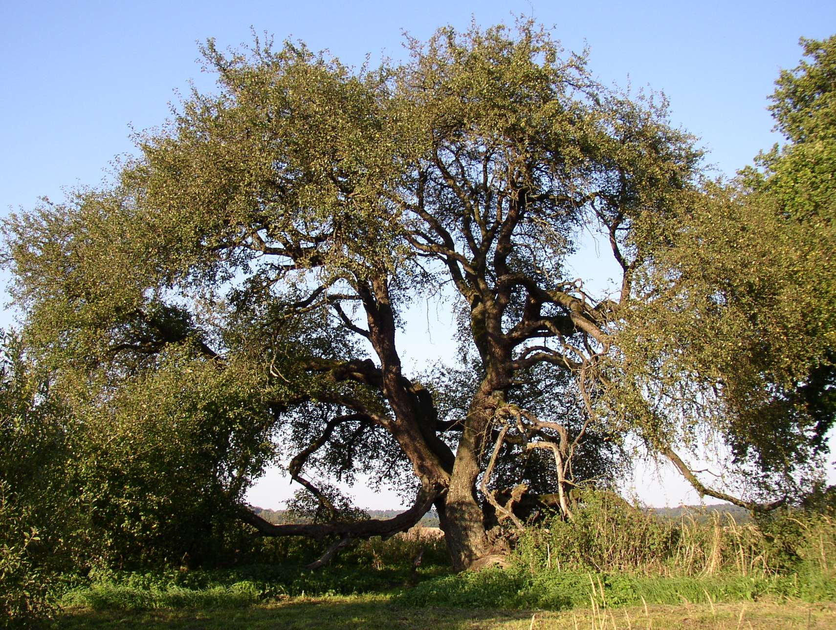 oldest crabapple tree in Germany